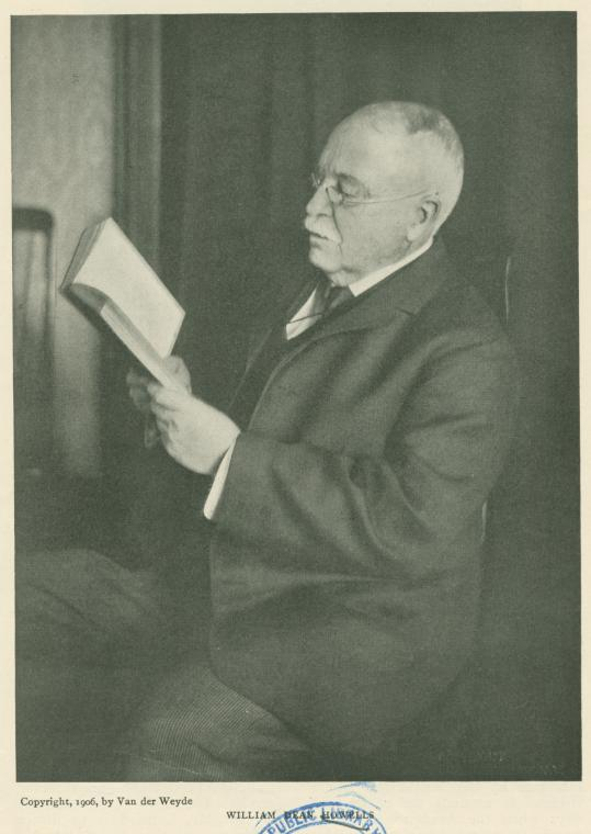 American author/editor William Dean Howells, reading from a book, wearing glasses. From NYPL Digital Gallery